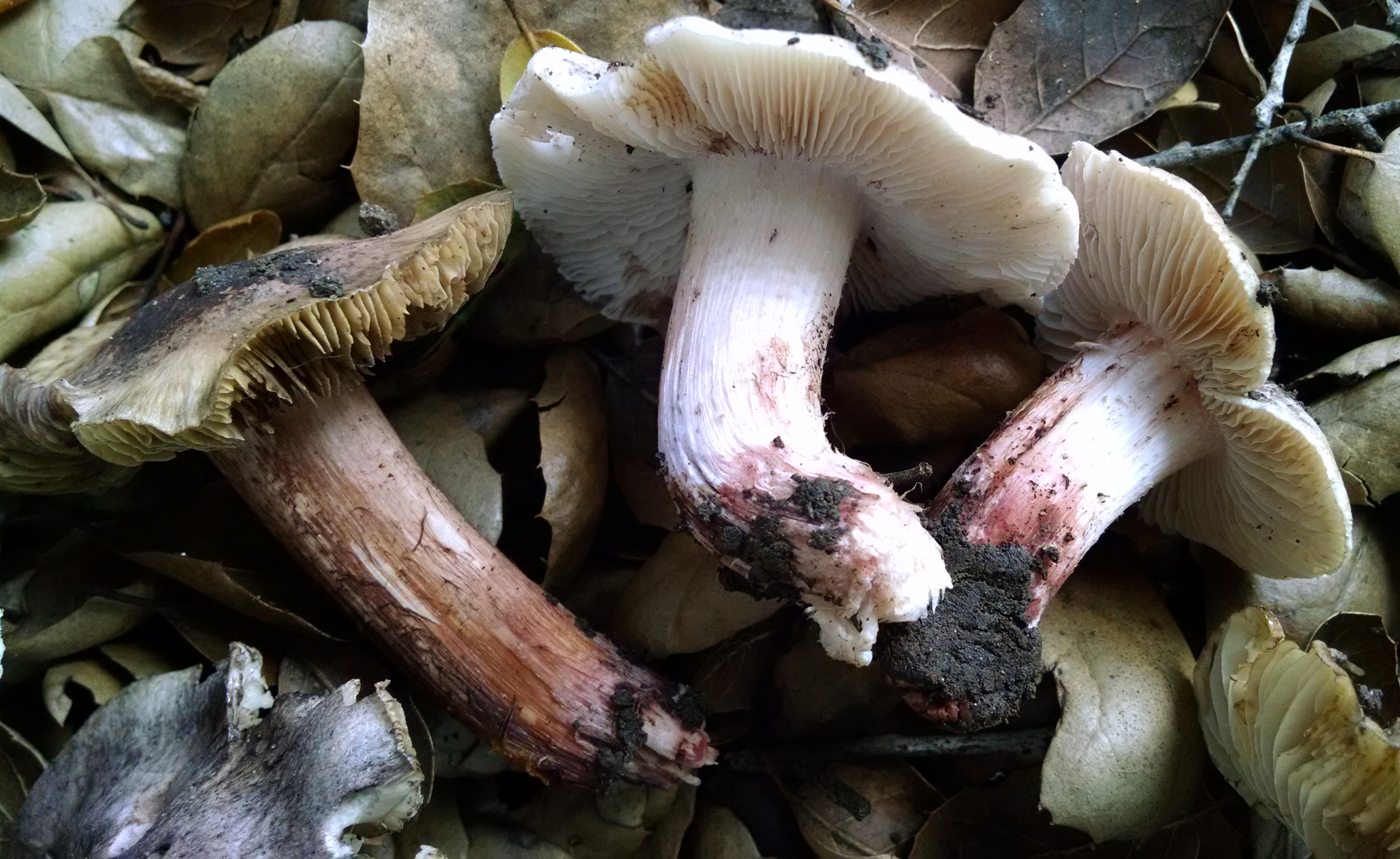 Inocybe adaequata sensu CA Observation Notes: Several Inocybe adaequata sensu mushrooms growing in Los Peñasquitos Canyon Preserve, San Diego, California, USA. For more information about this, see the observation page at Mushroom Observer.